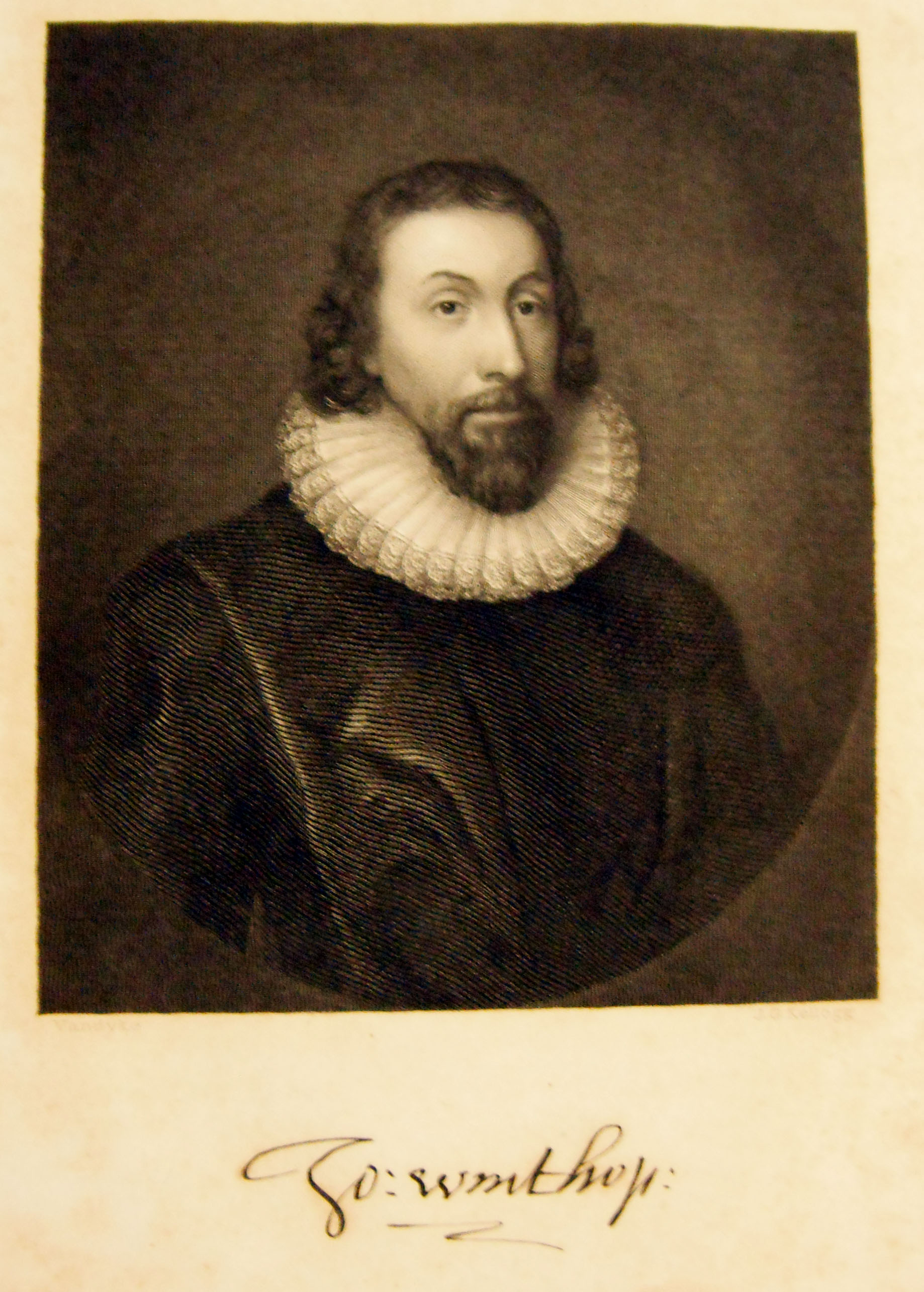 Lithograph of John Winthrop, early governor of the Massachusetts Bay Colony, possibly from book published in the 19th century. Original artwork by Vandyke, engraving rendition by Jarvis Griggs Kellogg, an A. Andrews Print.